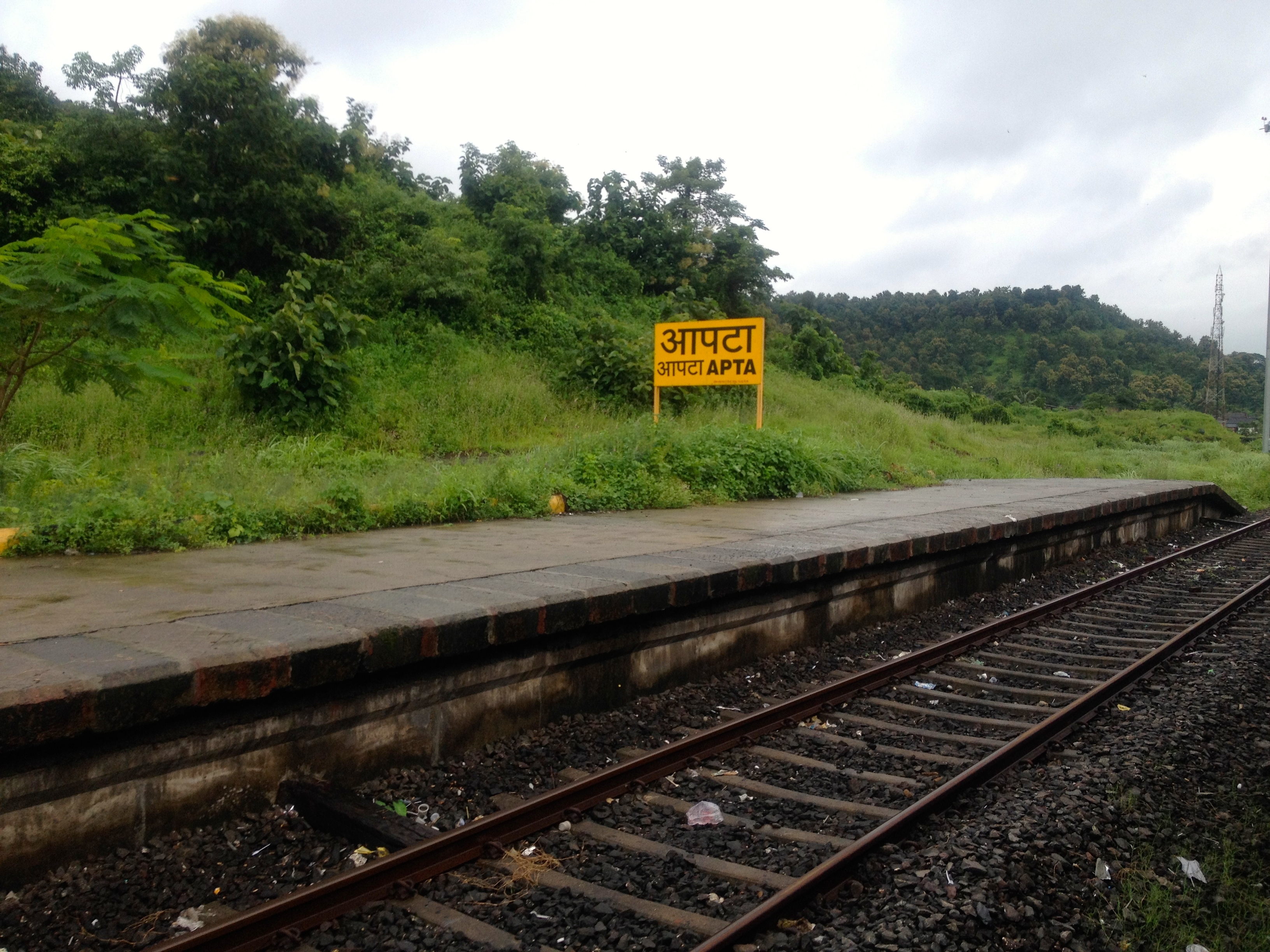 Apta Railway station near Mumbai India